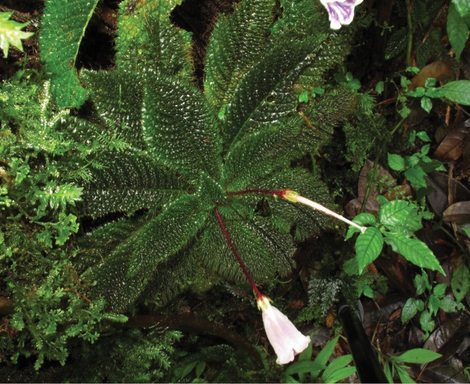 Ridleyandra chuana habitus.